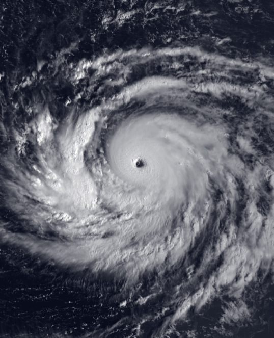 Typhoon Keith approaching the Marianas Islands on October 31, 1997, while near peak intensity.